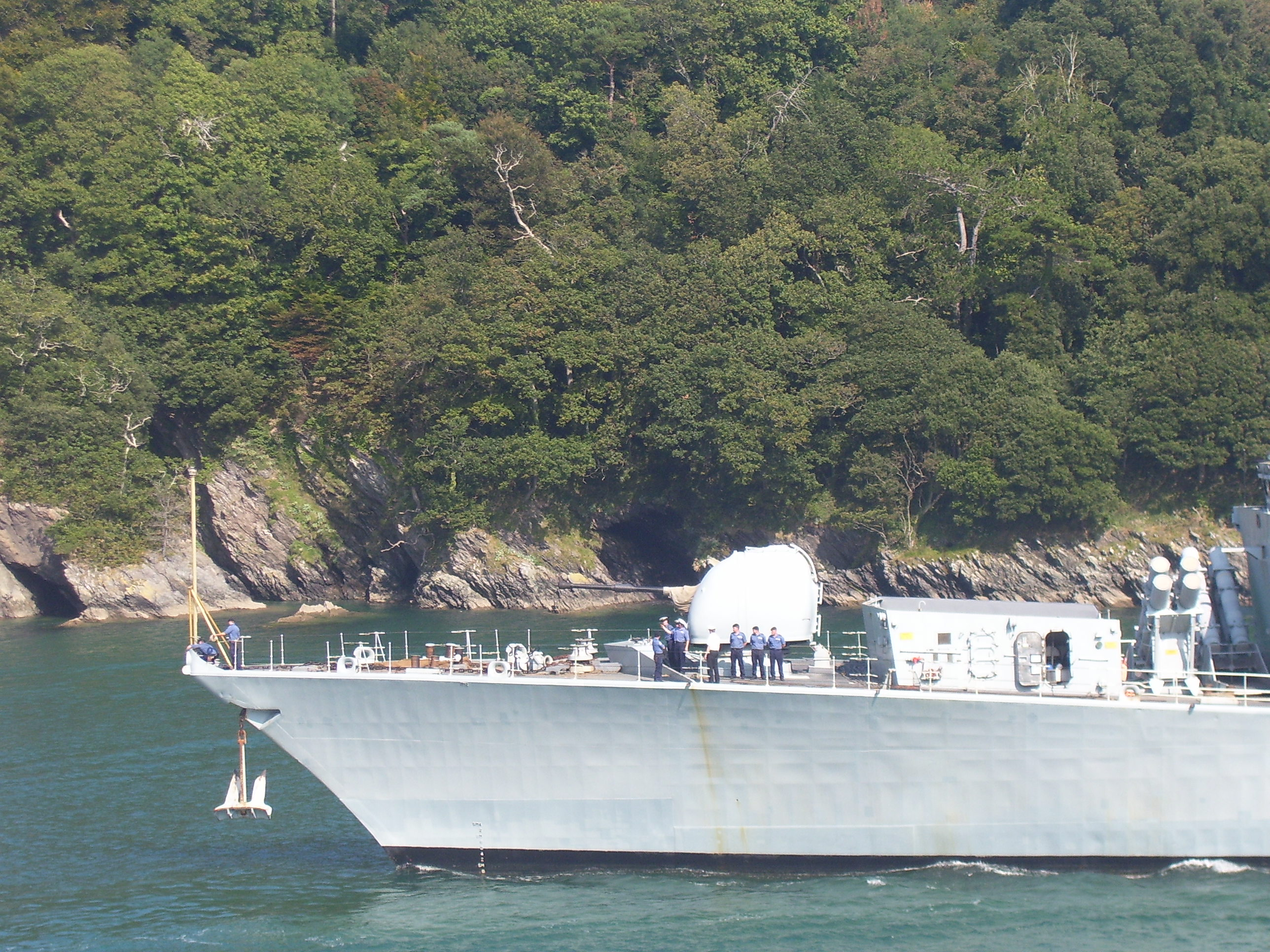 The deck gun on HMS Sutherland (F81). Taken at Dartmouth, UK.